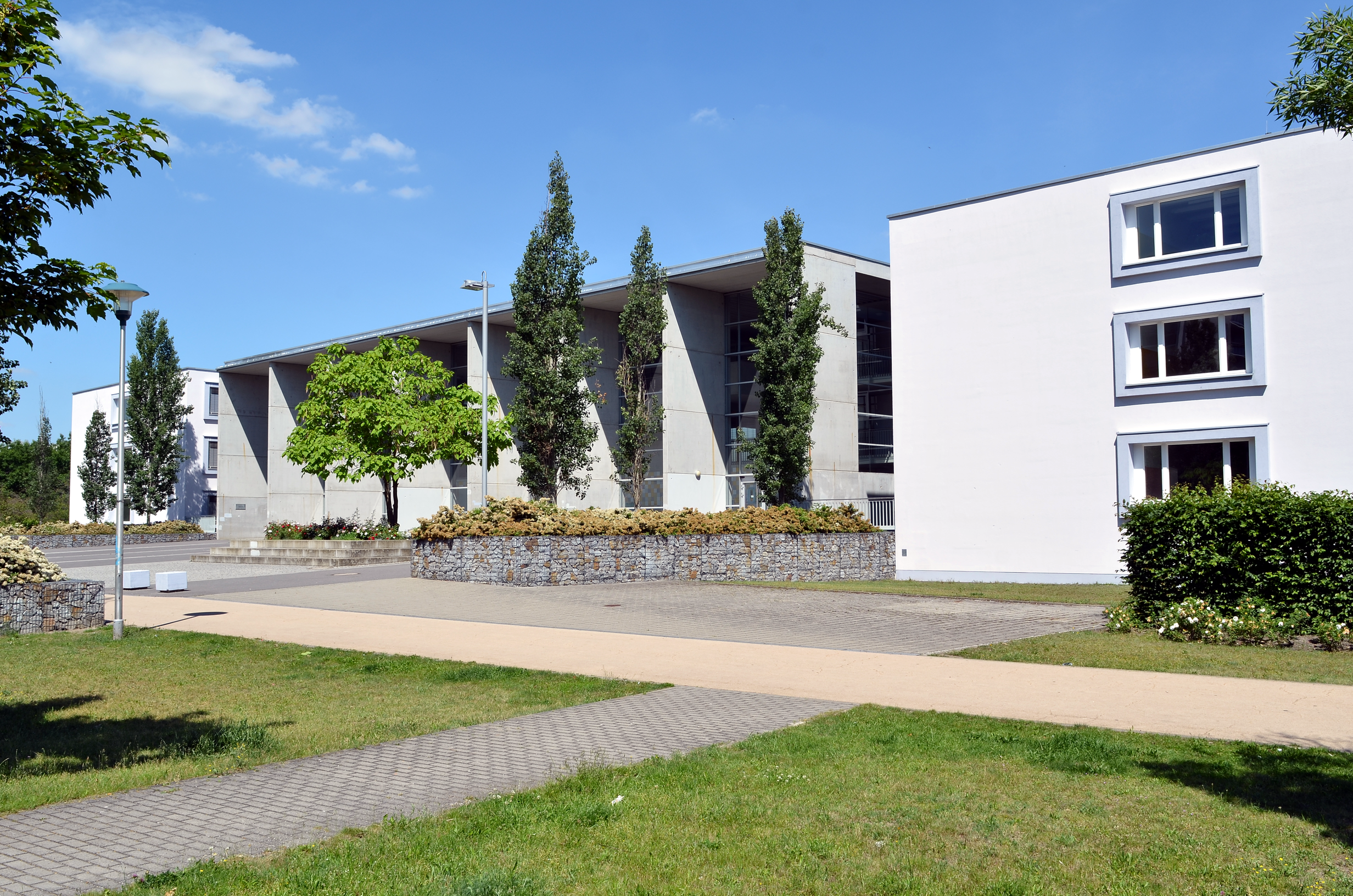 Secondary school Sachsendorfer Oberschule, Schwarzheider Straße 7 in Cottbus-Sachsendorf.